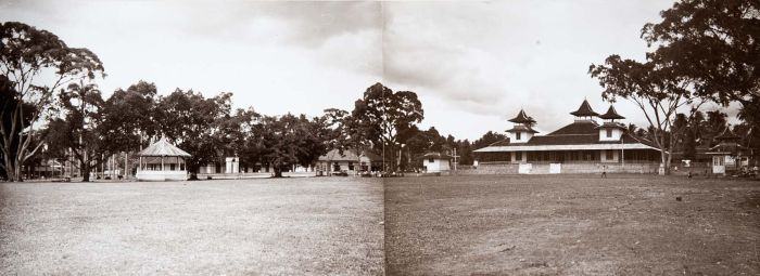 Alun-alun